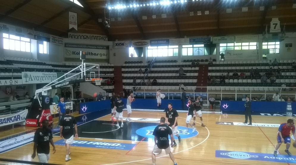 Apollon Patras B.C. warming up before the match against Panionios B.C. for the Greek Basketball League.